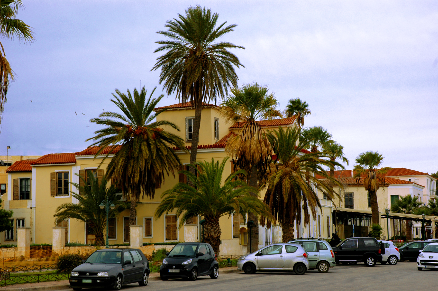 In the port of Lavrio, Greece